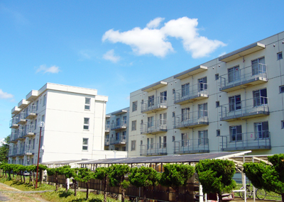 Komachi Dormitory